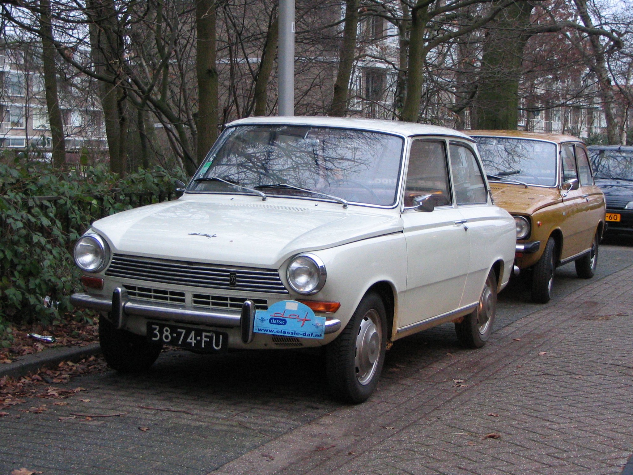 1968 DAF 55 parked in the street, with a 1974 DAF 66 just visible behind it